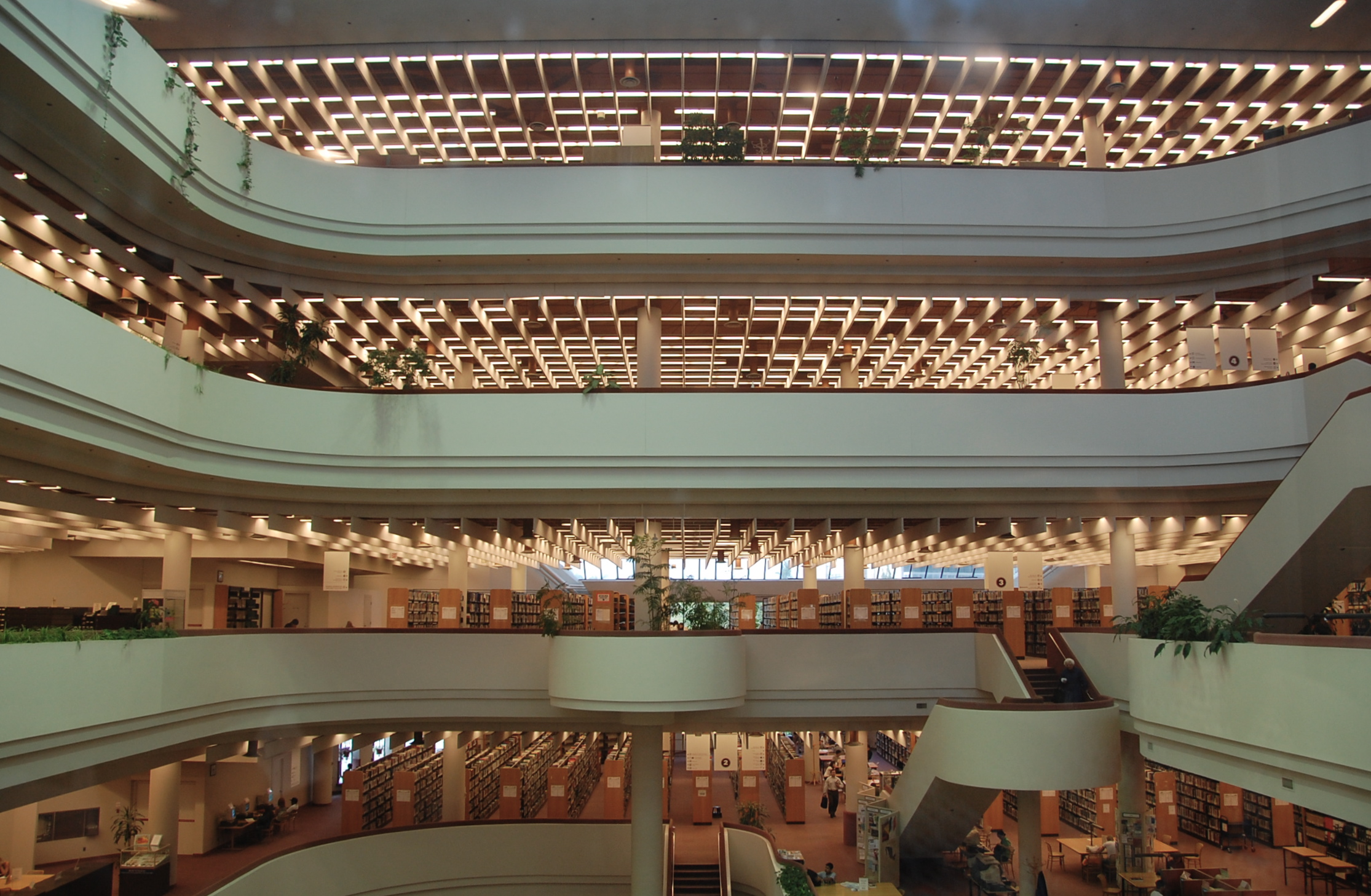 Toronto Reference Library. Toronto, Canada.